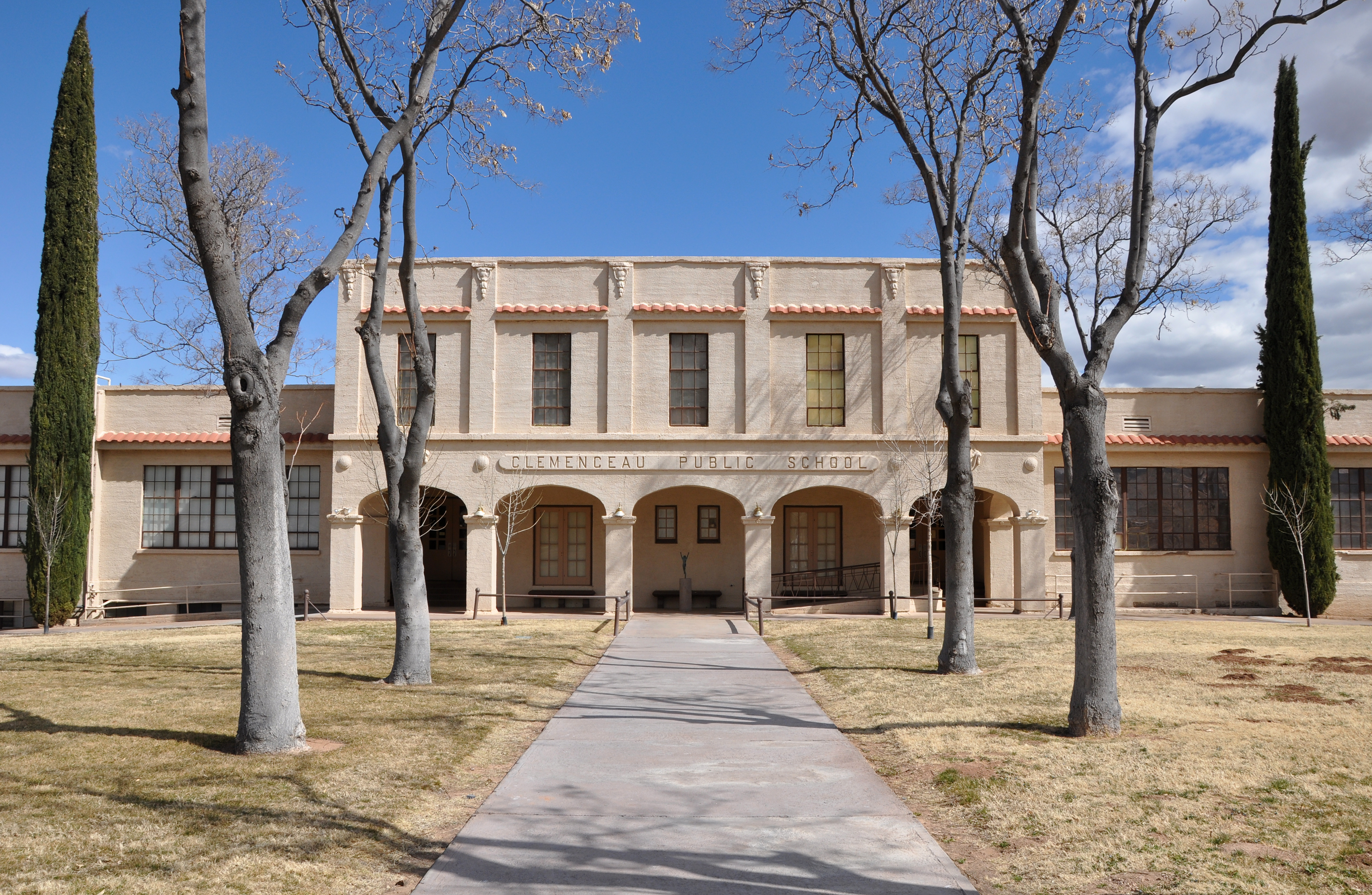 Clemenceau Public School in Cottonwood in the U.S. state of Arizona. The building houses the Clemenceau Heritage Museum.